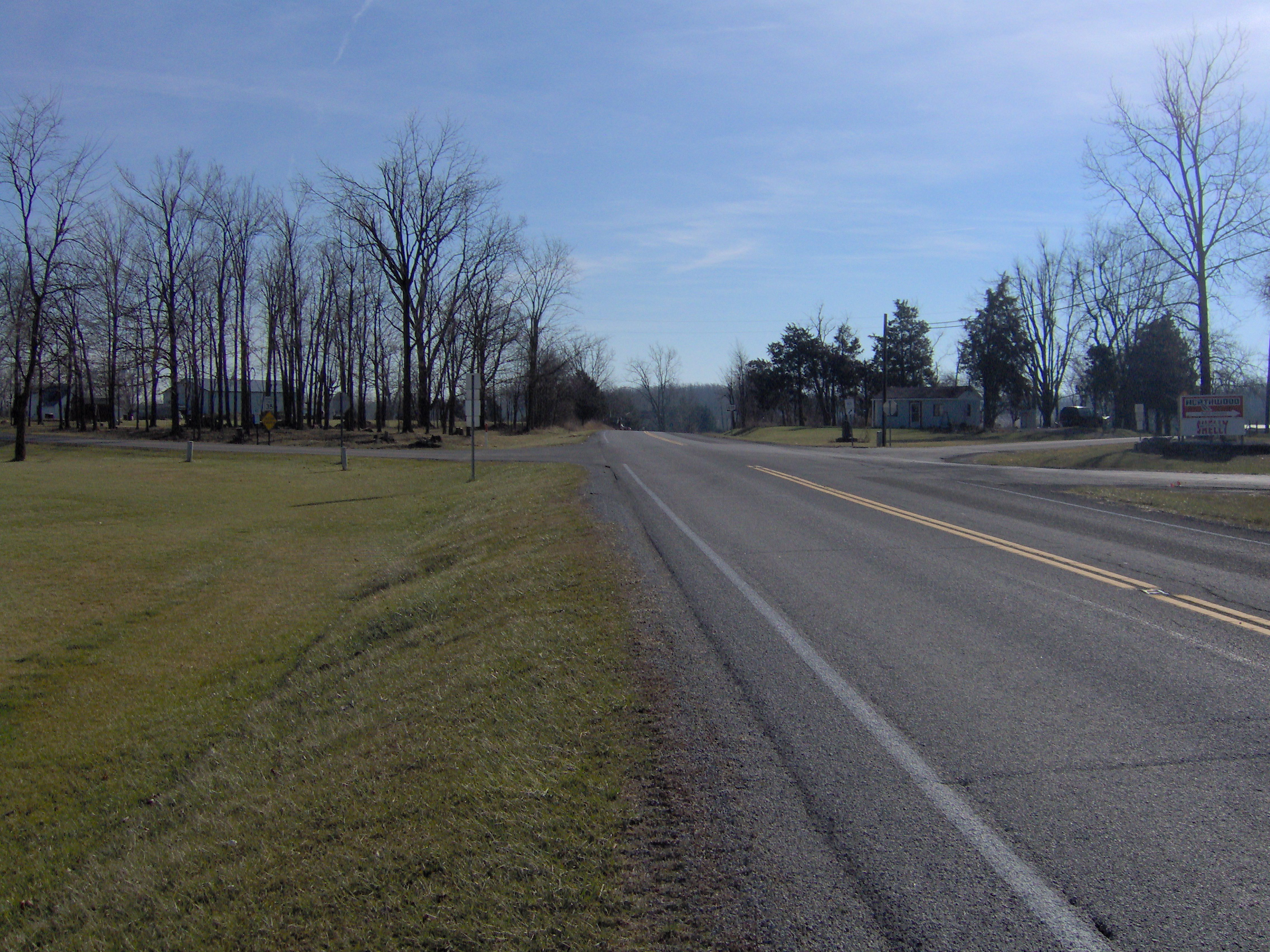 View of entering Northwood, Logan County, Ohio from the north on State Route 638. Picture taken by Nyttend on 3 January 2007.